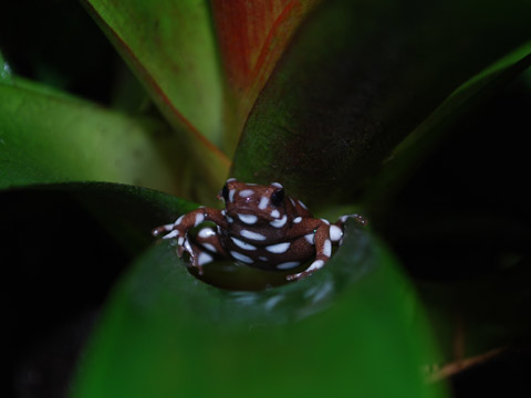 Excidobatesmysteriosusbigegallery1.jpg